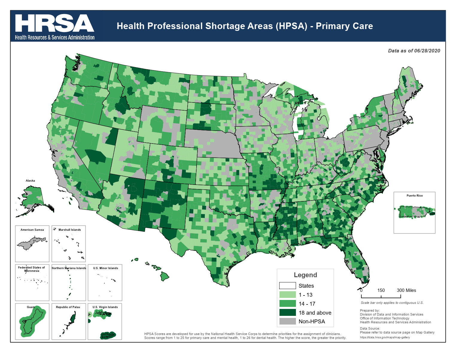 Health Professional Shortage Areas Map from the Health Resources & Serevices Administration of the U.S. Federal Government, data as of June 28, 2020. This attribute represents the Health Professional Shortage Area (HPSA) Score developed by the National Health Service Corps (NHSC) in determining priorities for assignment of clinicians. The scores range from 0 to 26 where the higher the score, the greater the priority.